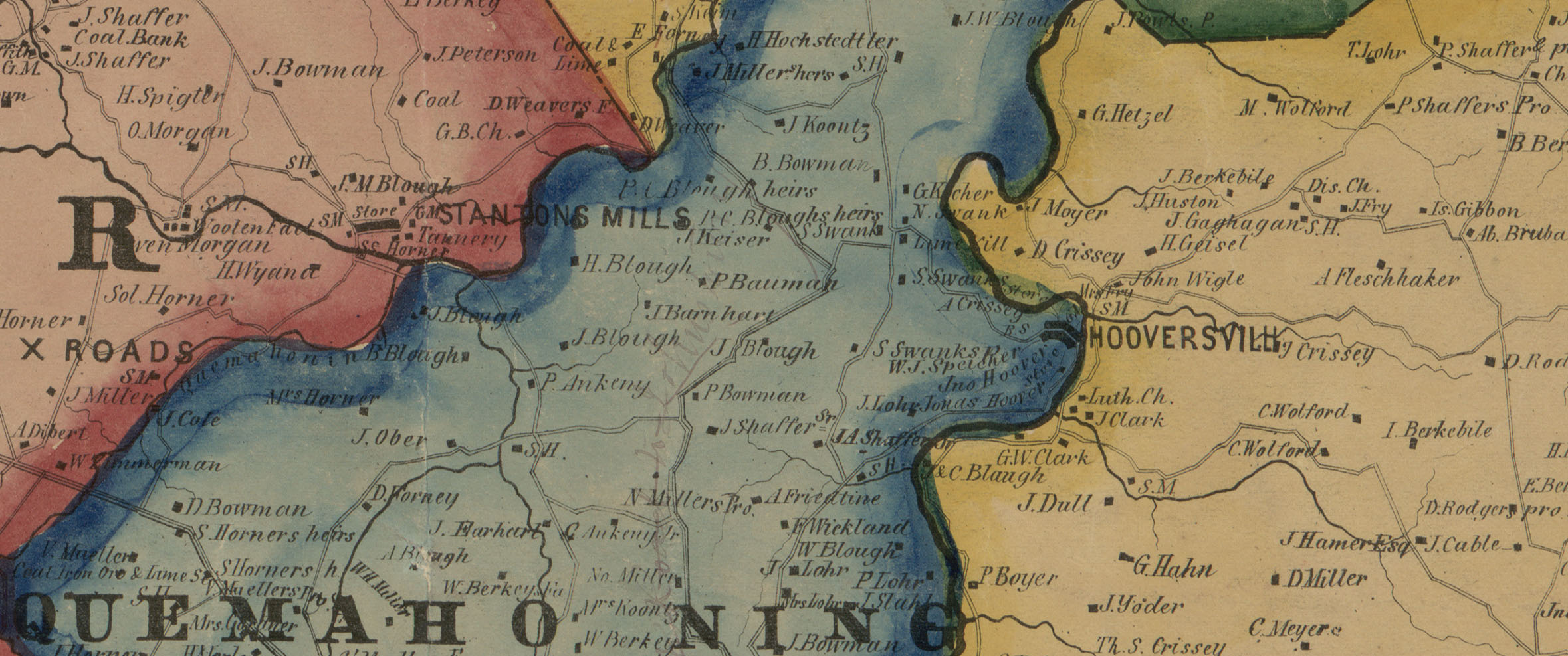 Map of Hooversville, Somerset County, Pennsylvania, taken from 1860 Edward L. Walker map of Somerset County available at the Library of Congress website